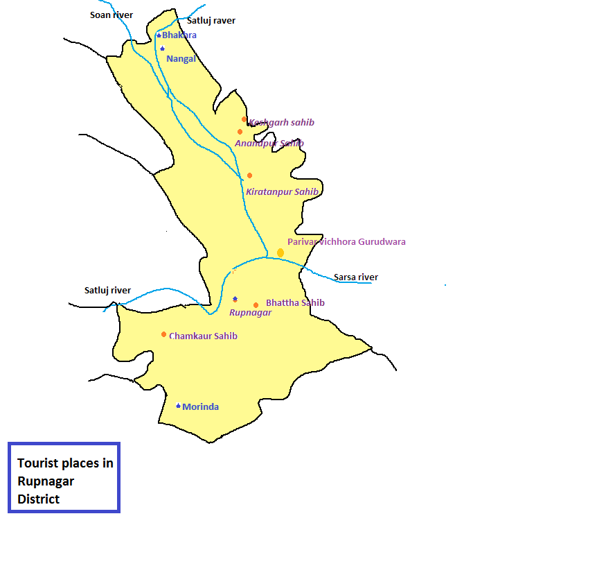 I wikiuser:SHEMAROO aka SIVENDER SINGH have created and uploaded this map for wikipedia.this is about tourist places in Rupnagar district,Punjab, India. Shemaroo (talk) 12:13, 1 January 2013 (UTC)